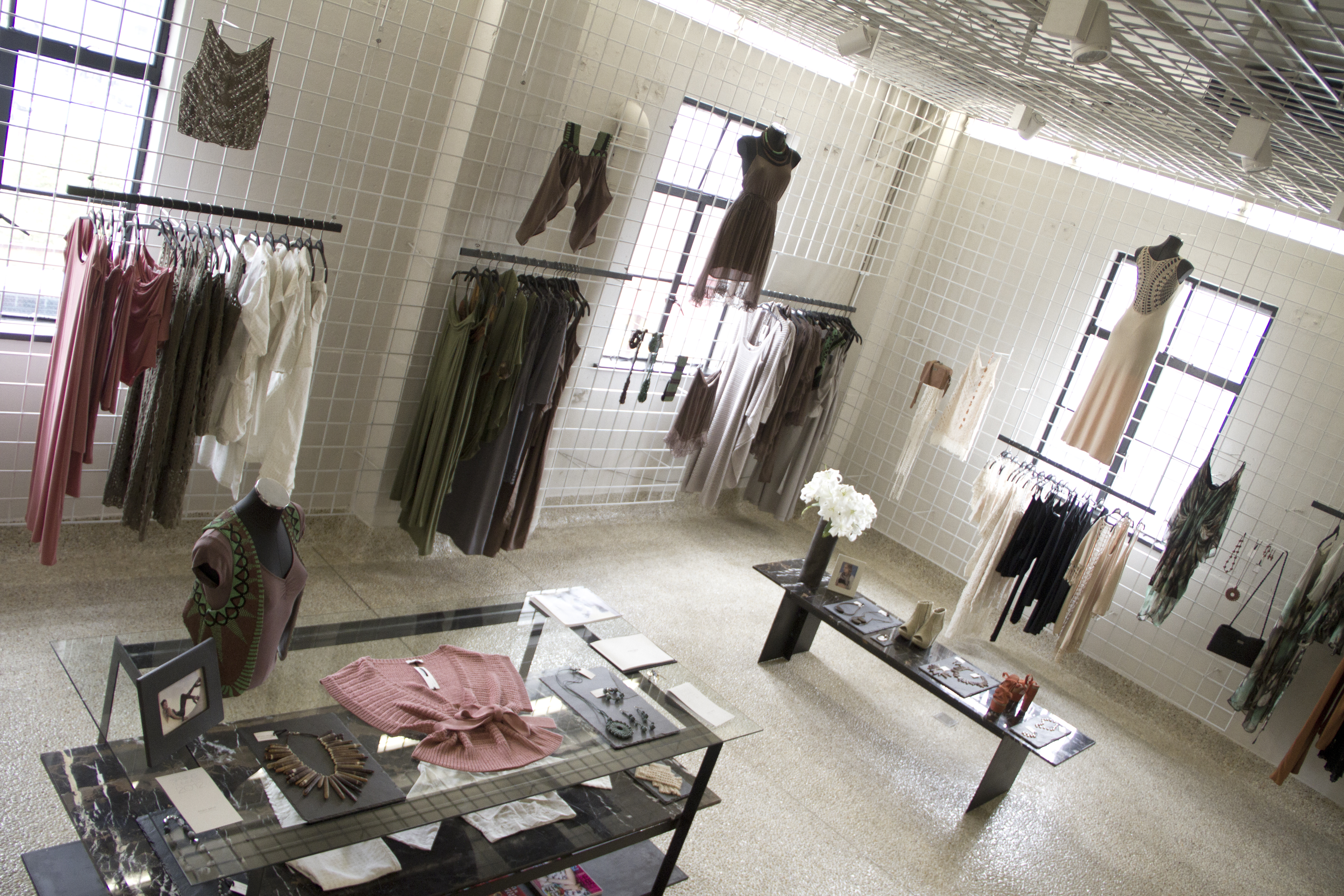 Foto Showroom Shanghai 2012